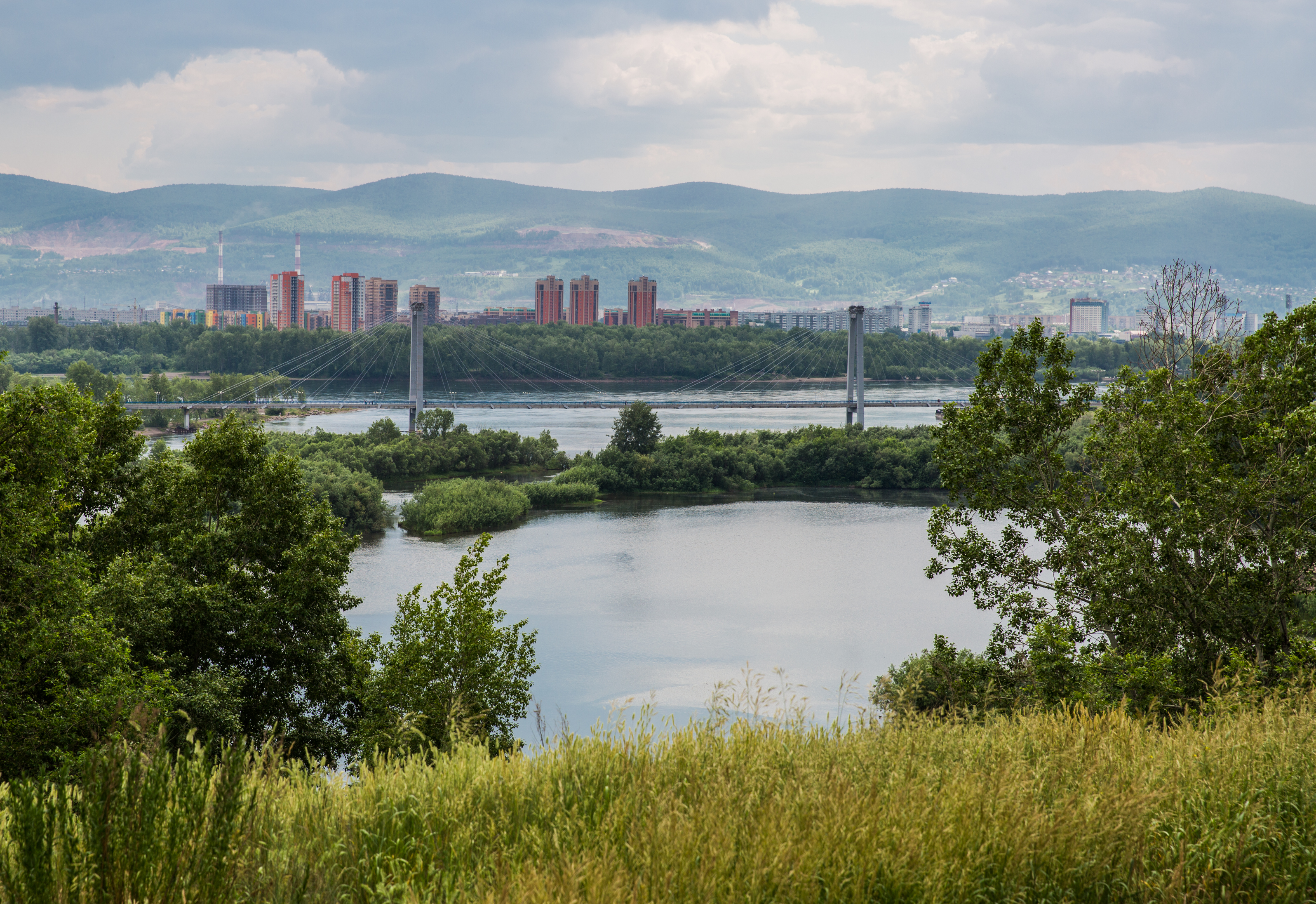 District of Strelka and Vinogradovsky Bridge in Krasnoyrsk. View from the observation deck near the monument to Andrey Dubensky.